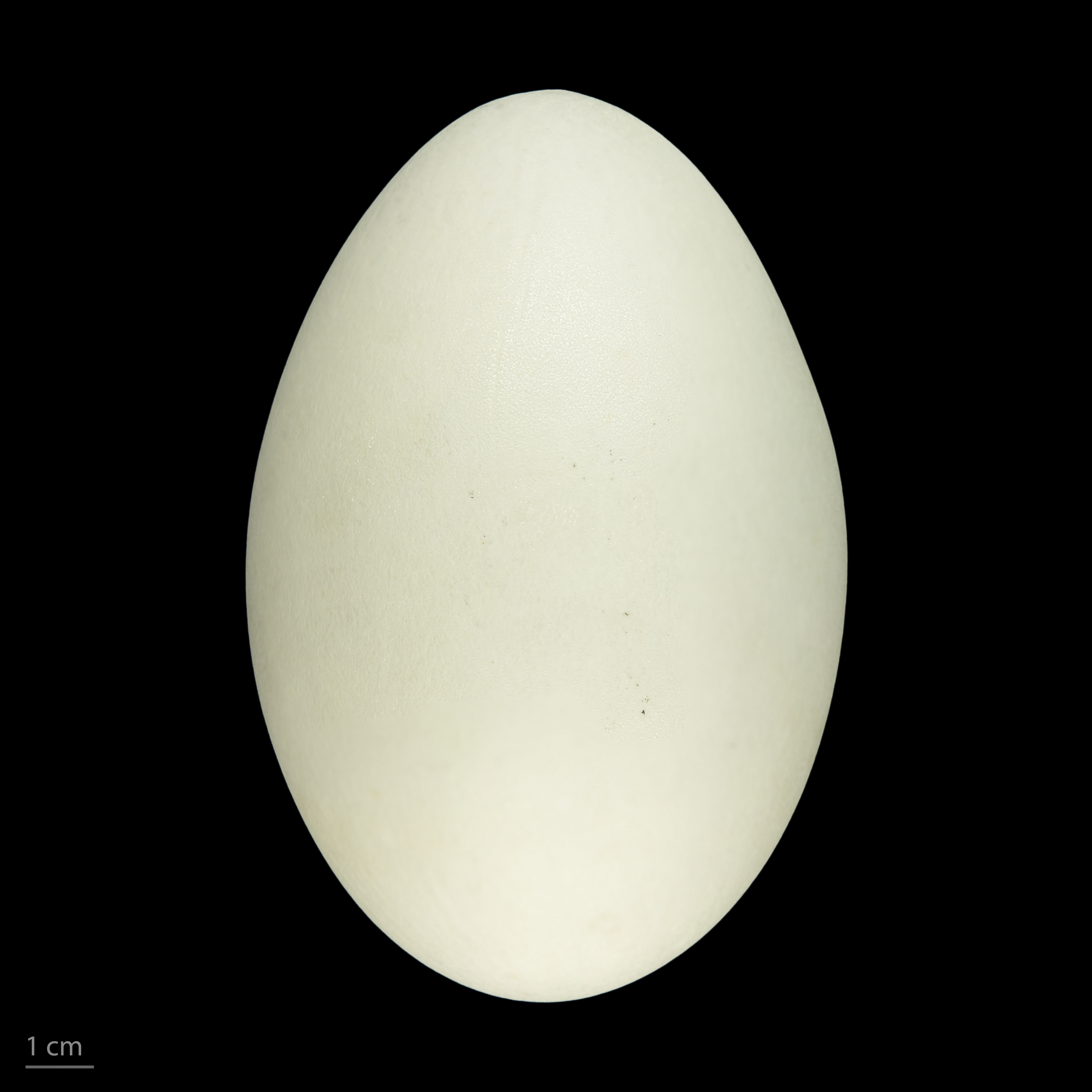 Egg of mute swan Collection of Jacques Perrin de Brichambaut.